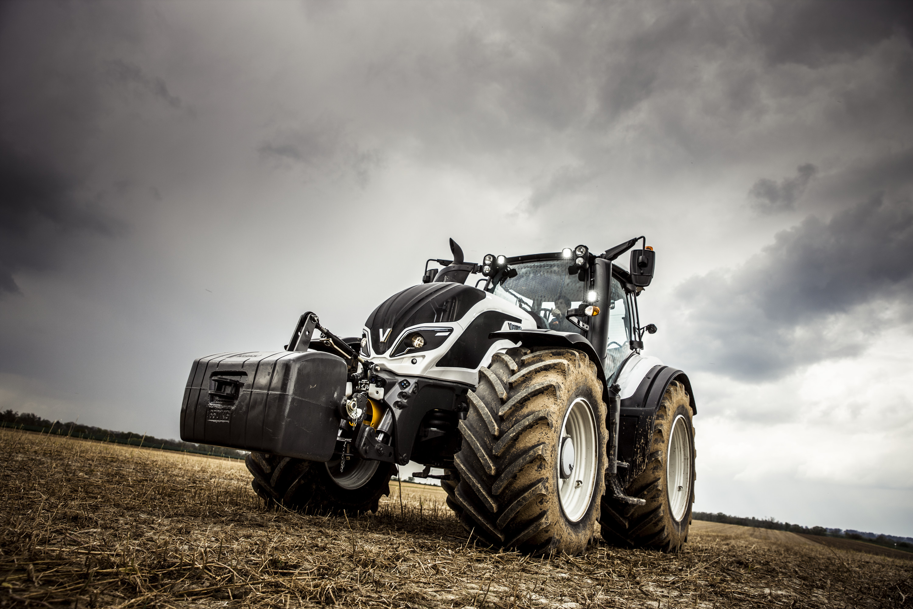 Fourth generation Valtra T Series tractor was launched in 2014.